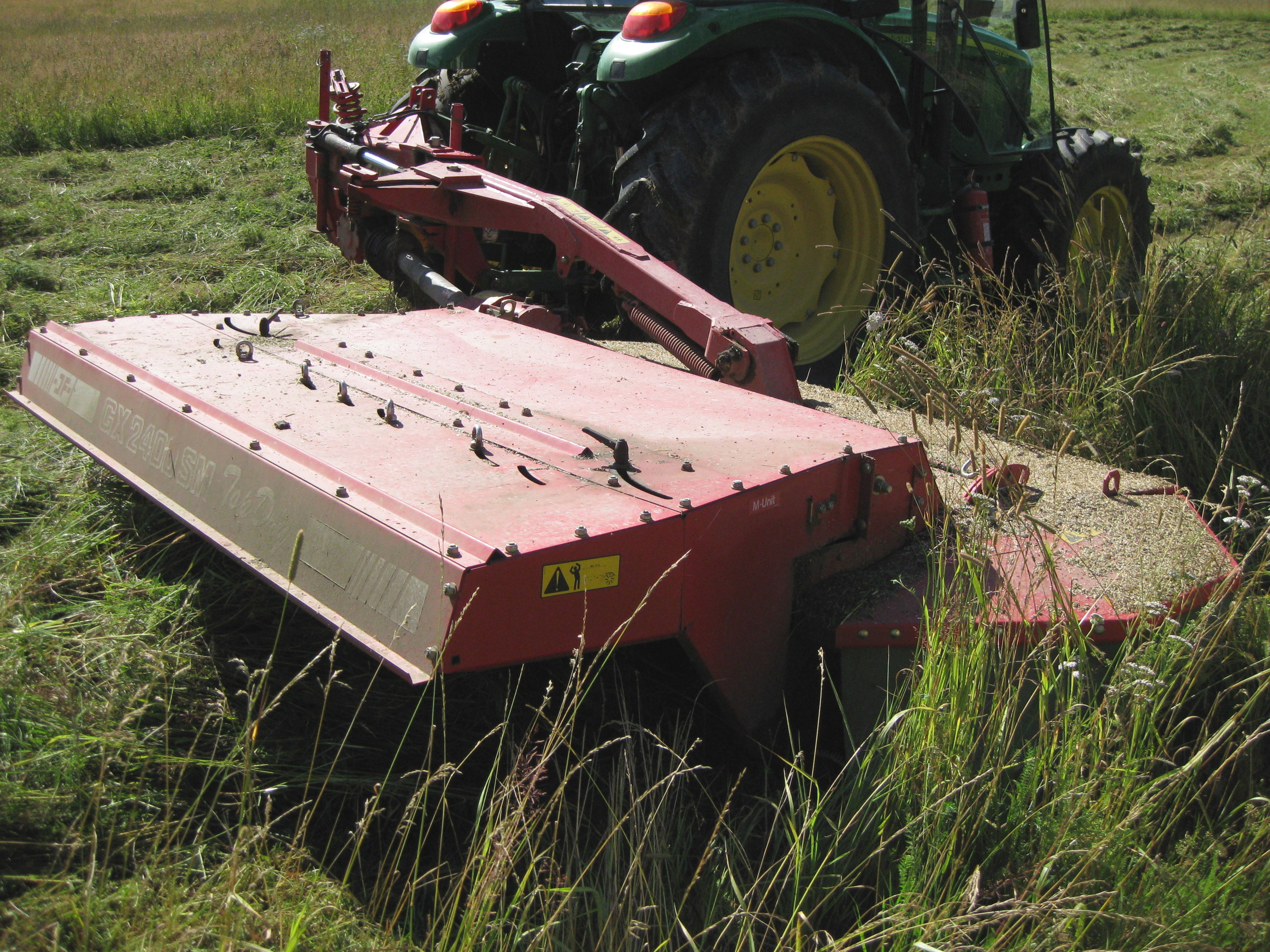 JF GX 2400 SM mower with PE-type finger conditioner. Working width 2,4 meters.